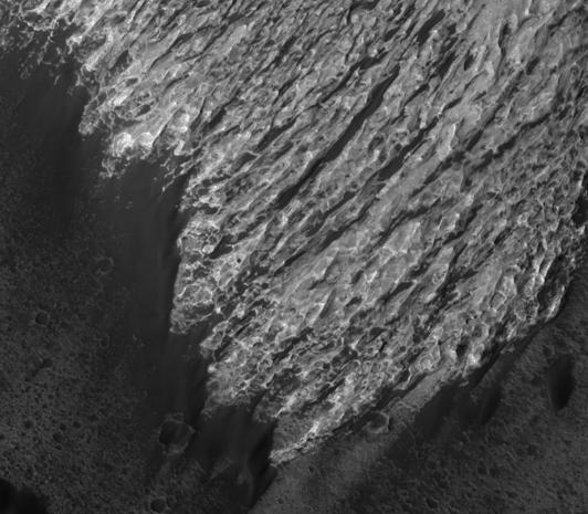 Trouvelot crater floor, as seen by hirise. Location is 15.4 degrees north latitude and 346.8 degrees east longitude. Image was taken by the Mars Reconnaissance Orbiter's HiRISE. The HiRISE camera was built by Ball Aerospace and Technology orporation and is operated by the University of Arizona. Image courtesy NASA/JPL/University of Arizona.